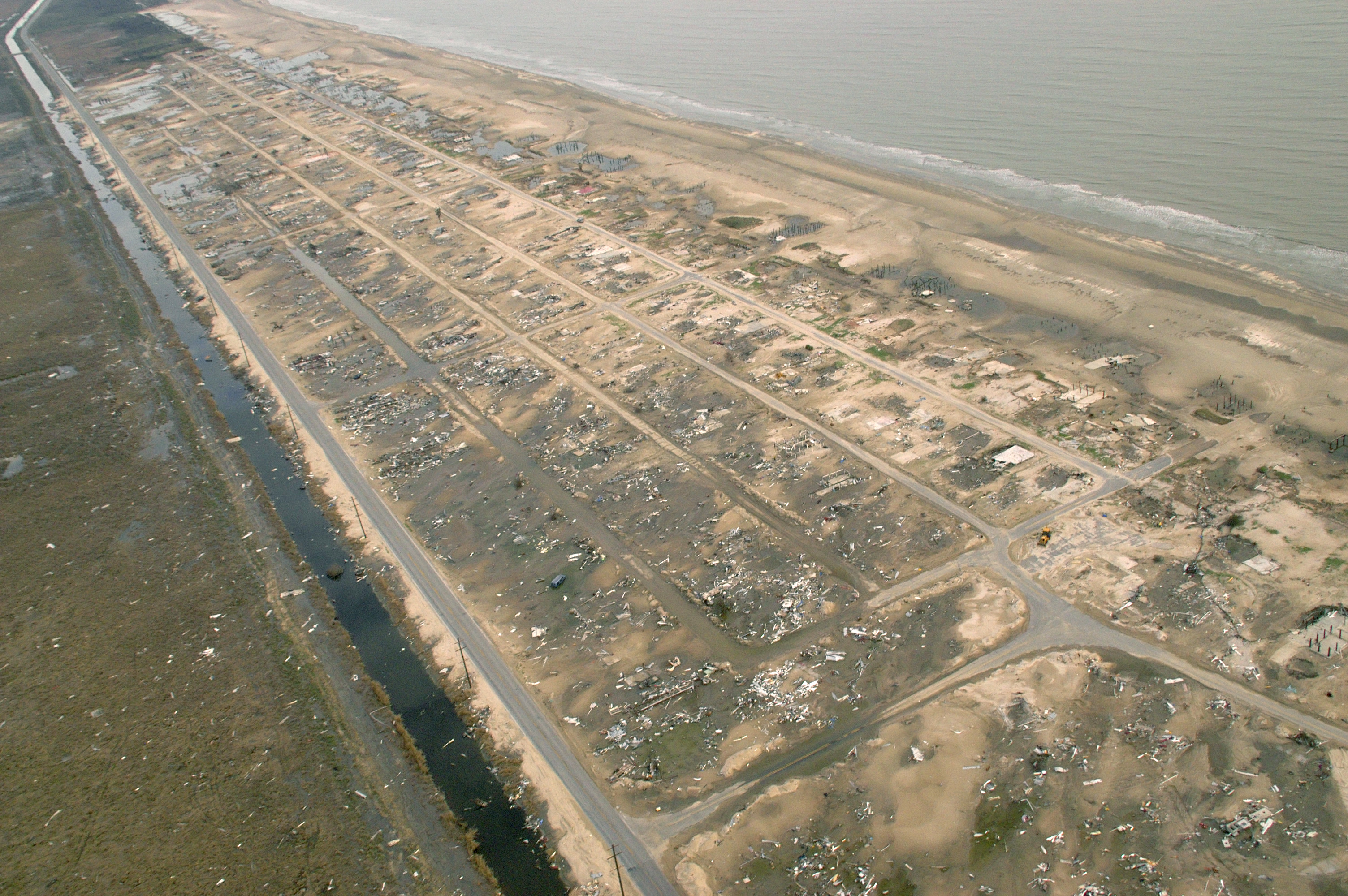 Holly Beach, LA, 11-16-05 -- This community of 500 structures was leveled by Hurricane Rita's tidal surge and high winds leaving little debris. Hurricane Rita left many people homeless that are asking FEMA to help them get rebuild their community and get back on their feet. MARVIN NAUMAN/FEMA photo